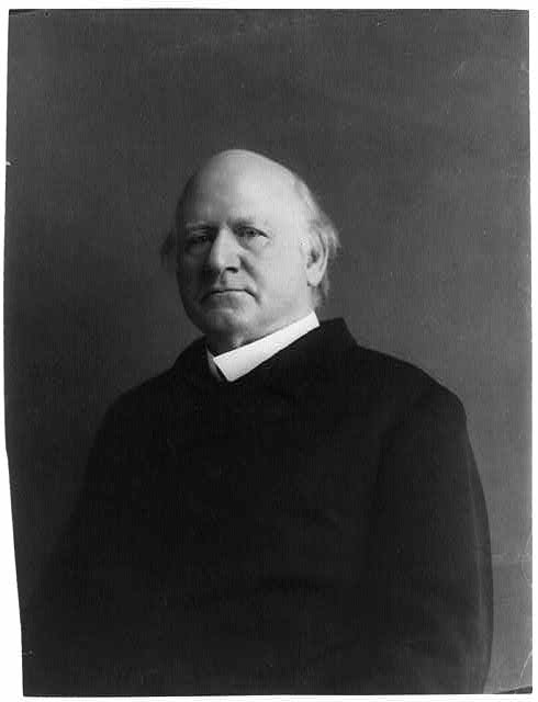 John Marshall Harlan (1833-1911); US Supreme Court Judge (1877-1911)